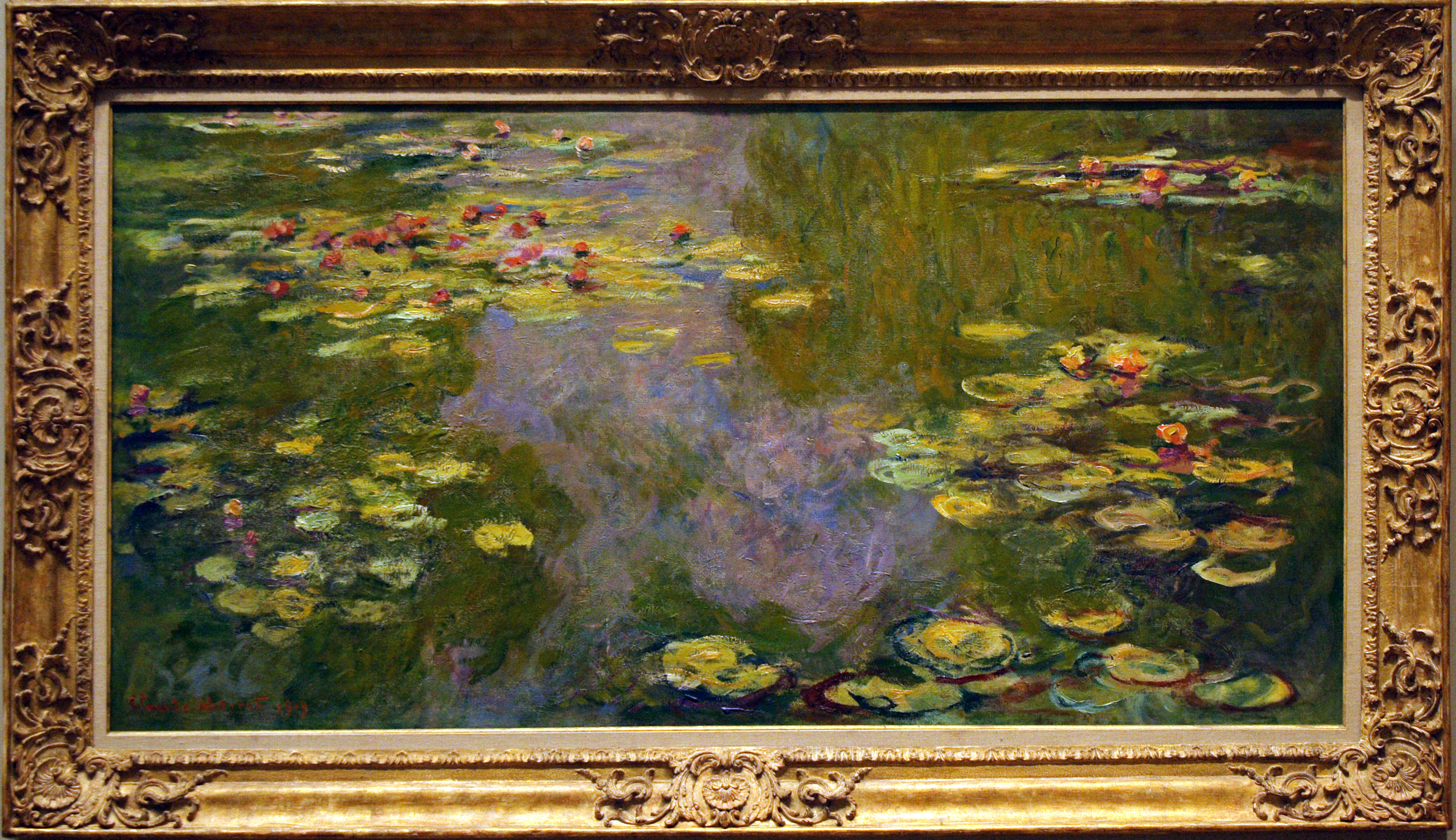 Painting of Monet in the MET, NY